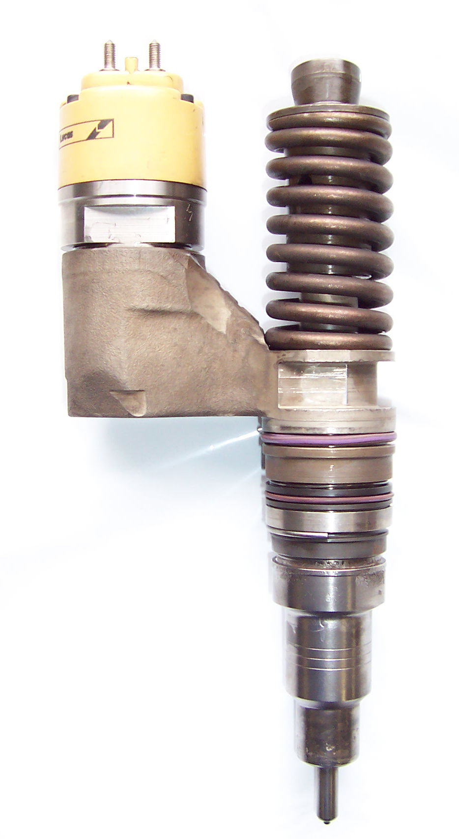 Unit Injector early prod type